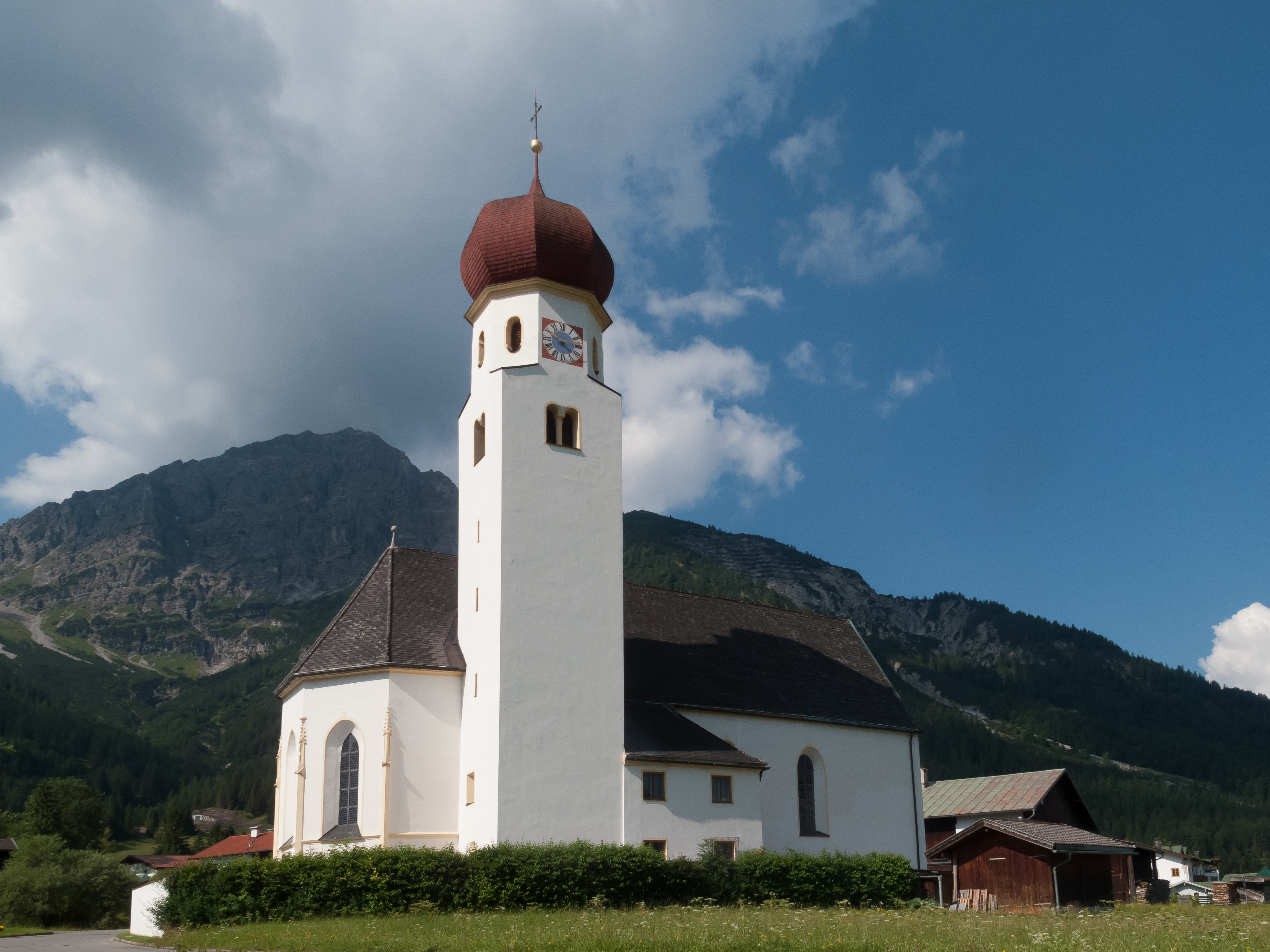 Heiterwang, church: katholische Pfarrkirche Unsere Liebe Frau Mariae Himmelfahrt with the summit of Thaneller (2343m)